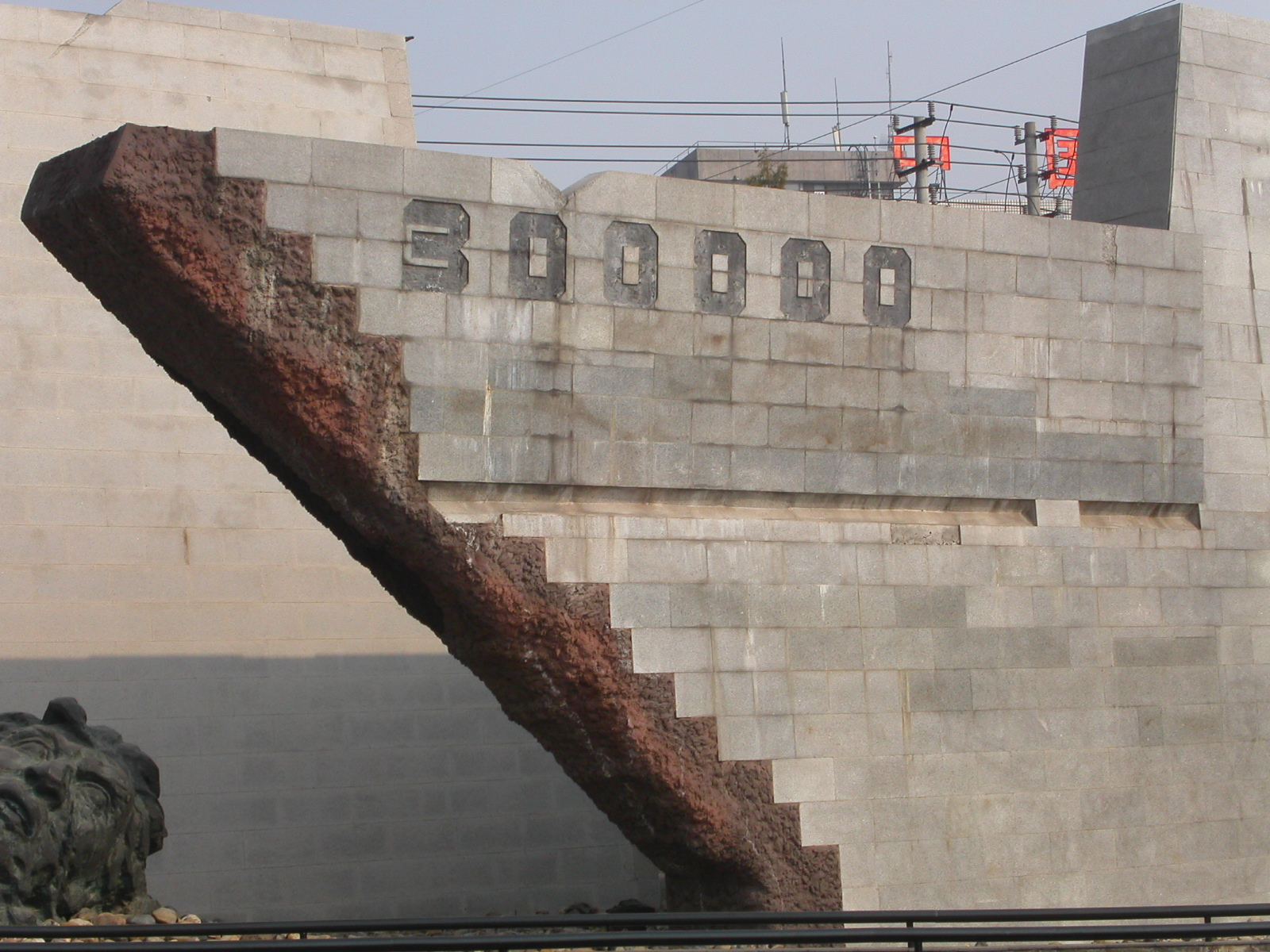 Memorial Hall of victims in Nanjing massacre by Japanese invaders